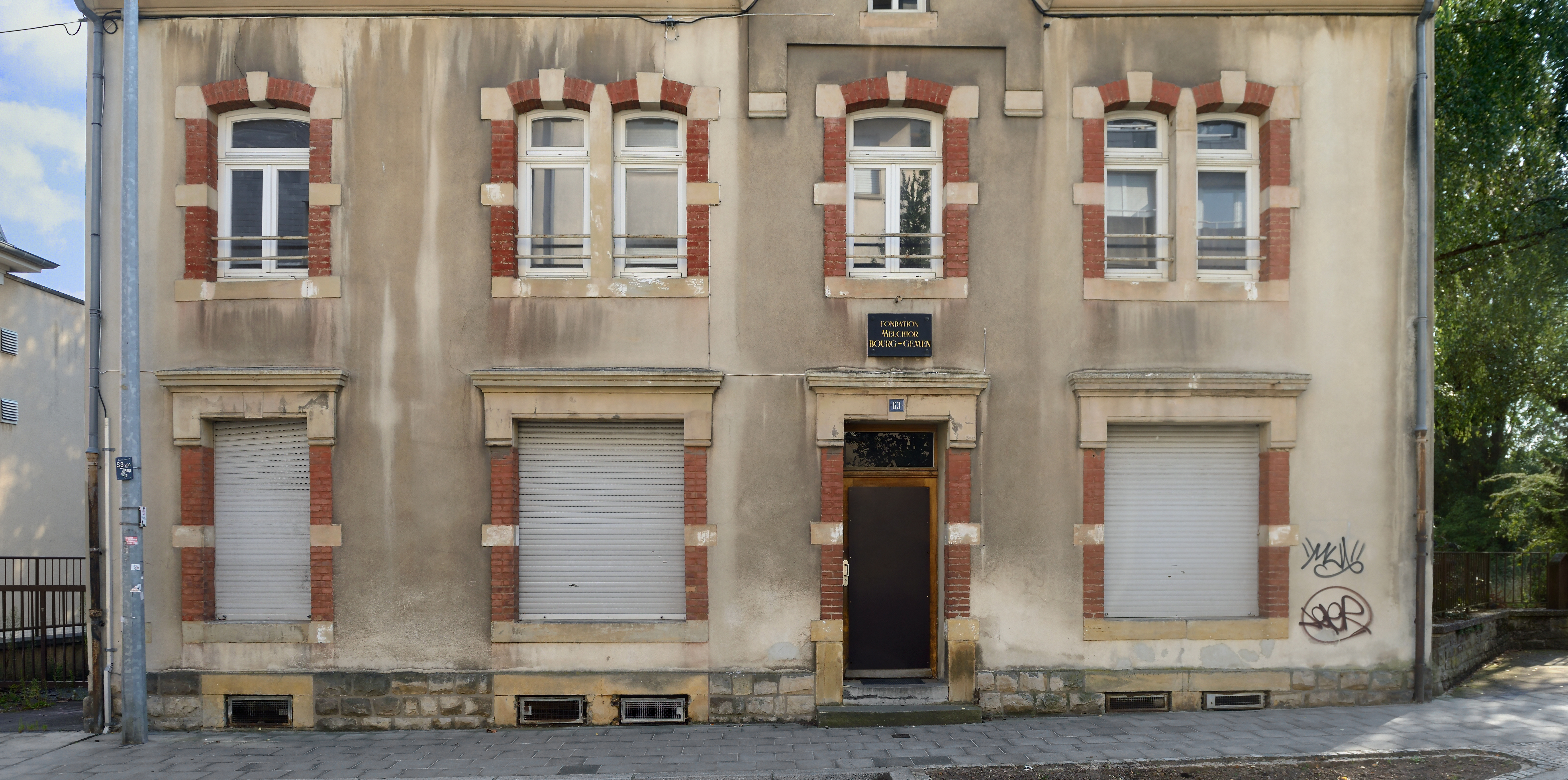 Facade of a building in Luxembourg City, Limpertsberg, 63, avenue Pasteur. Destined to be demolished in 2014, the commune decided to renovate it in 2016.